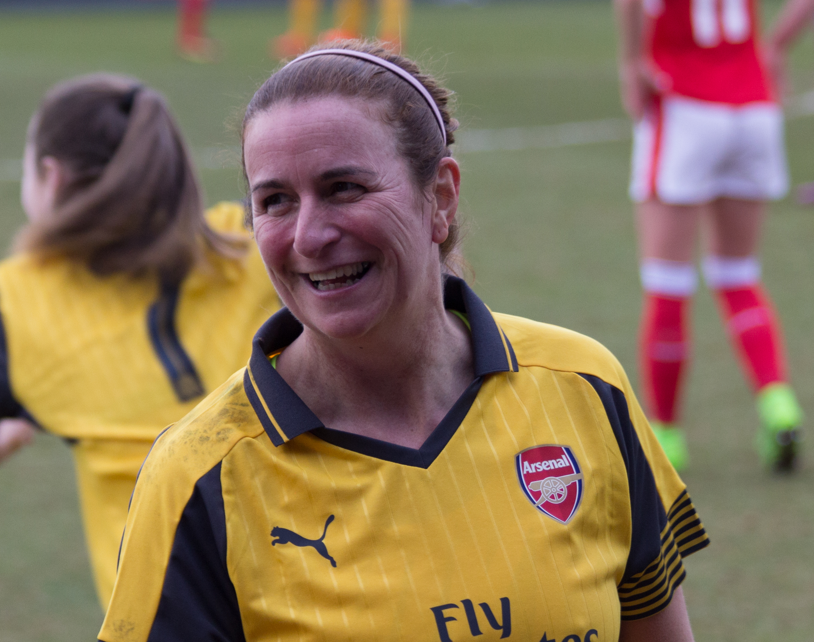 Arsenal LFC (Red) v Kelly Smith All-Stars XI (Yellow), 19 February 2017 – second half